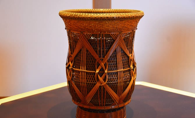 When entertaining guests, a floral arrangement, ikebana, is displayed in this hanakago (flower vase) atop a decorative stand. The vase is the work of the late Hayakawa Shōkosai V, a Living National Treasure.